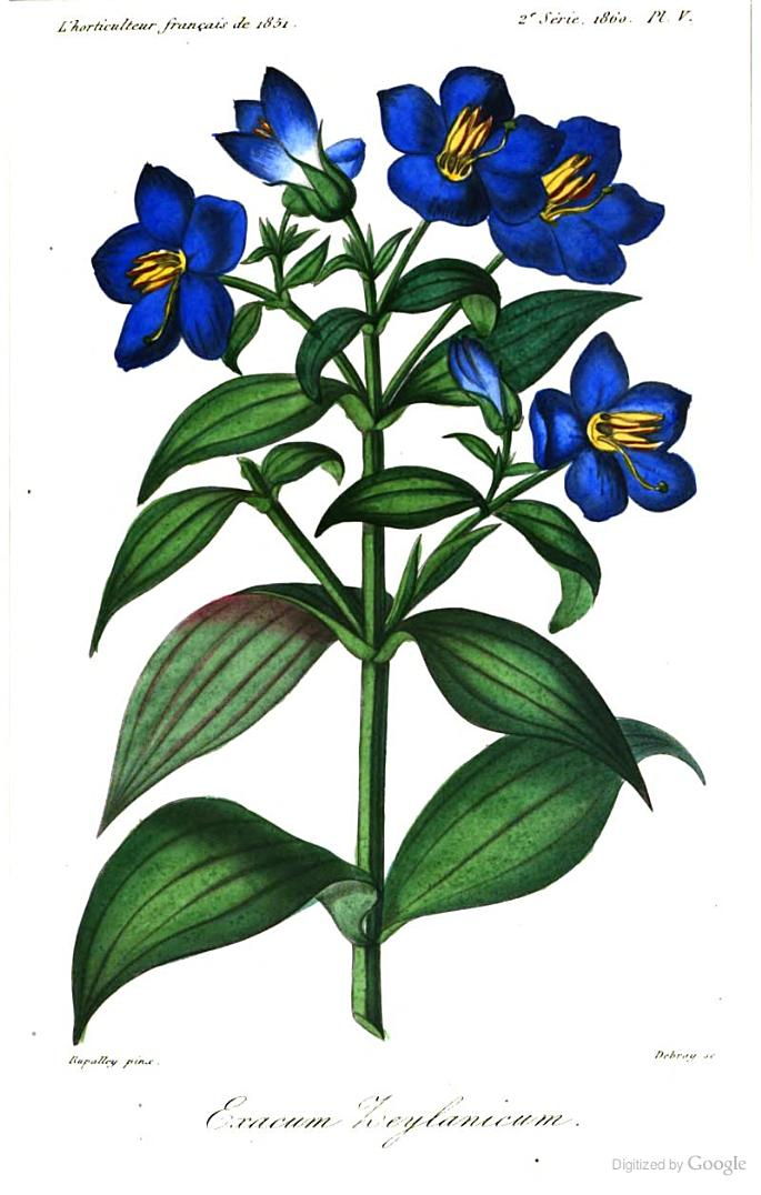 Plate from "L'Horticulteur français de mil huit cent cinquante et un: journal des amateurs et des intérêts horticoles"